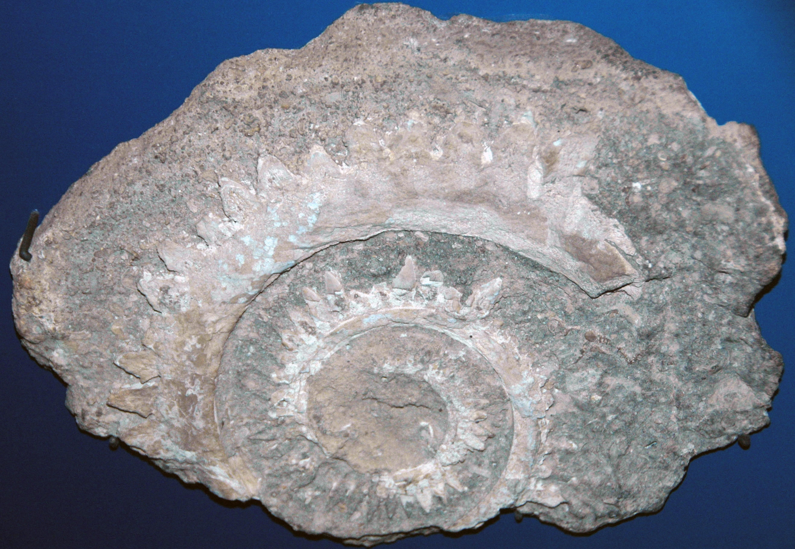 Helicoprion ferrieri (Hay, 1907) fossil shark jaw from the Permian of Texas, USA (public display, FMNH PF 7445, Field Museum of Natural History, Chicago, Illinois, USA). This remarkable fossil is a symphyseal tooth whorl from the lower jaw of an edestoid shark. It is in fossiliferous limestone of the Decie Ranch Member of the Skinner Ranch Formation (Wolfcampian Series, lower Lower Permian) from Dugout Mountain, northern Brewster County, Glass Mountains, western Texas, USA. Sharks have a cartilaginous skeleton and mineralized, phosphatic teeth (as are all vertebrate teeth). Helicoprion is undoubtedly the oddest shark in geologic history (see reconstructions elsewhere in this photo album). The specimen shown here is described in Kelly & Zangerl (1976) - Helicoprion (Edestidae) in the Permian of West Texas. Journal of Paleontology 50: 992-994. Classification: Animalia, Chordata, Vertebrata, Chondrichthyes, Elasmobranchii, Eugeneodontida, Edestoidea, Agassizodontidae/Helicoprionidae